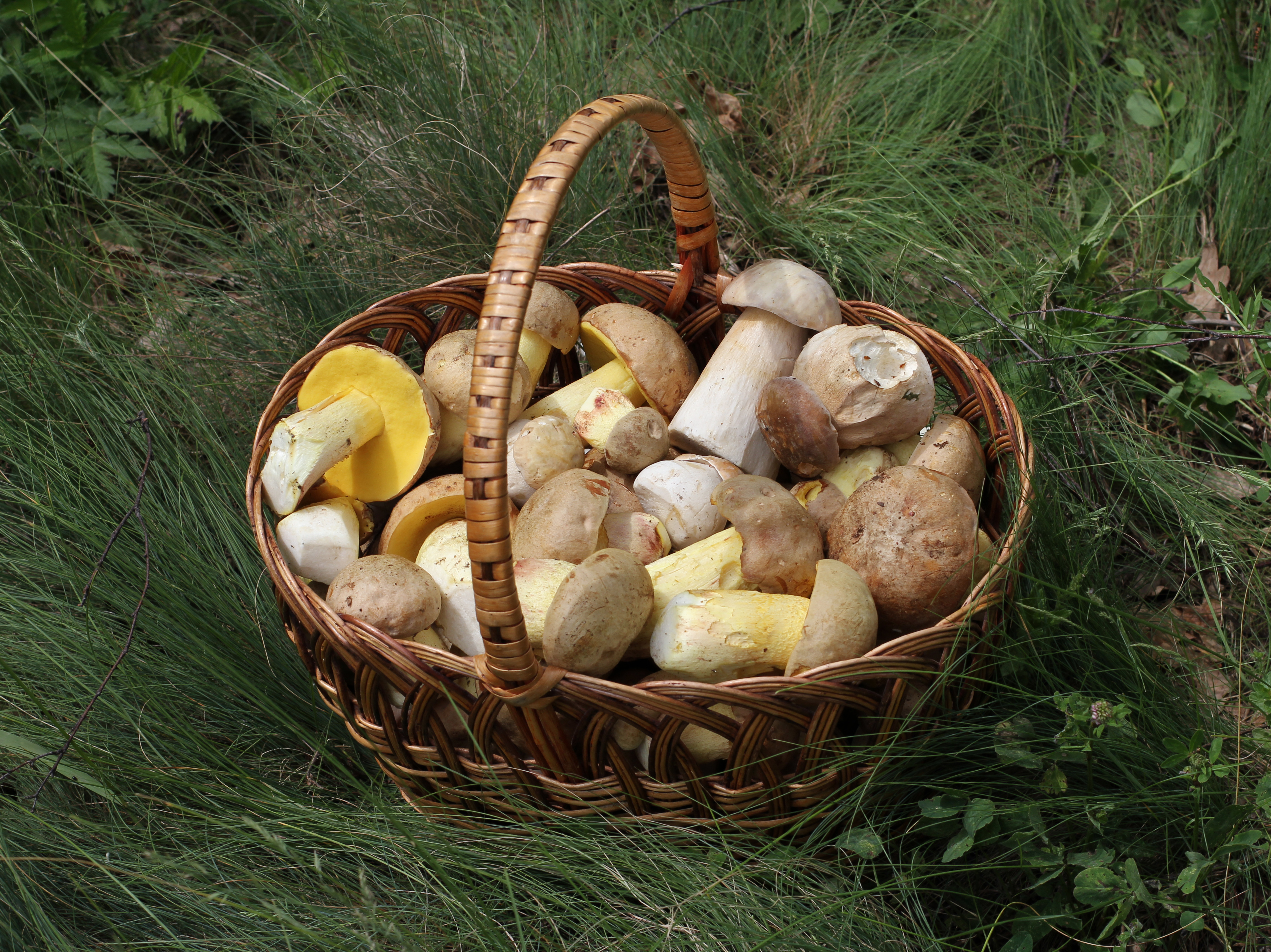 Picked edible fungi in basket. Cep (Boletus edulis, Boletus reticulatus), and Iodine bolete (Boletus impolitus). Trophies of a mushroom hunt. Ukraine.